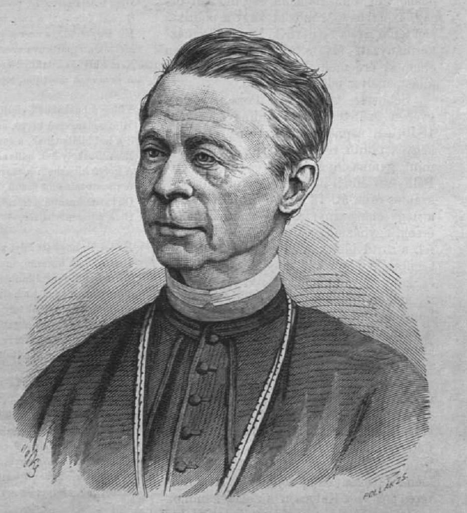 Konstantin Schuster (bishop)